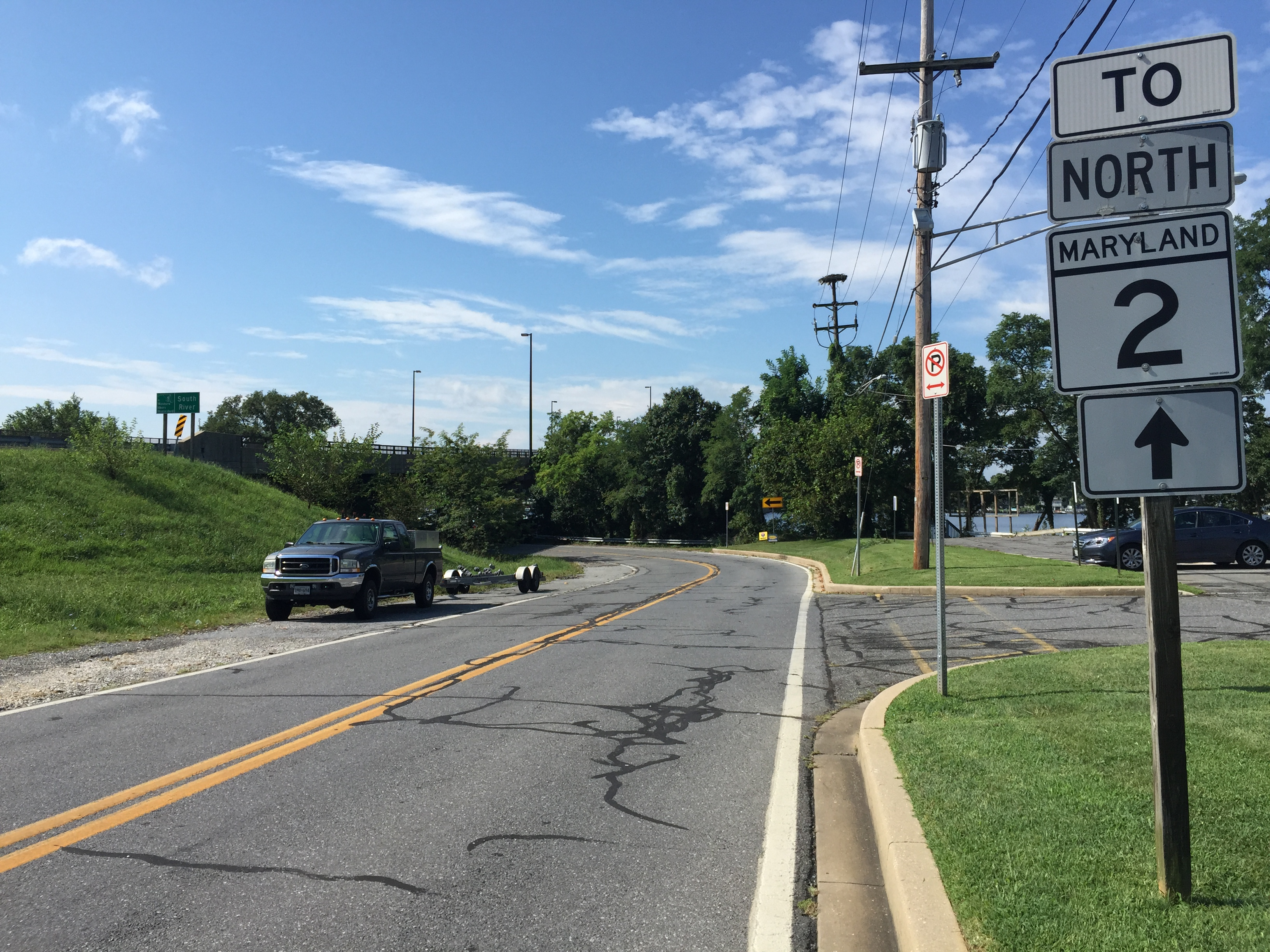 View east along Maryland State Route 553 (Old South River Road) at Maryland State Route 2 (Solomons Island Road) in Parole, Anne Arundel County, Maryland